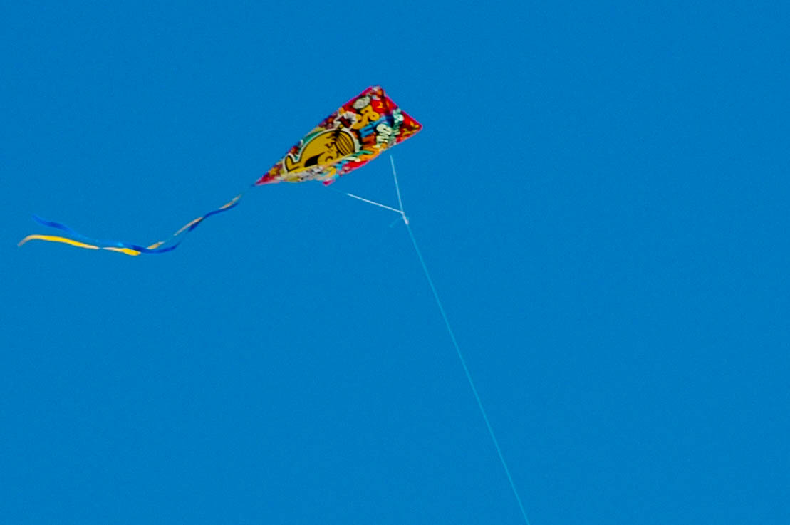 North Lakes Park